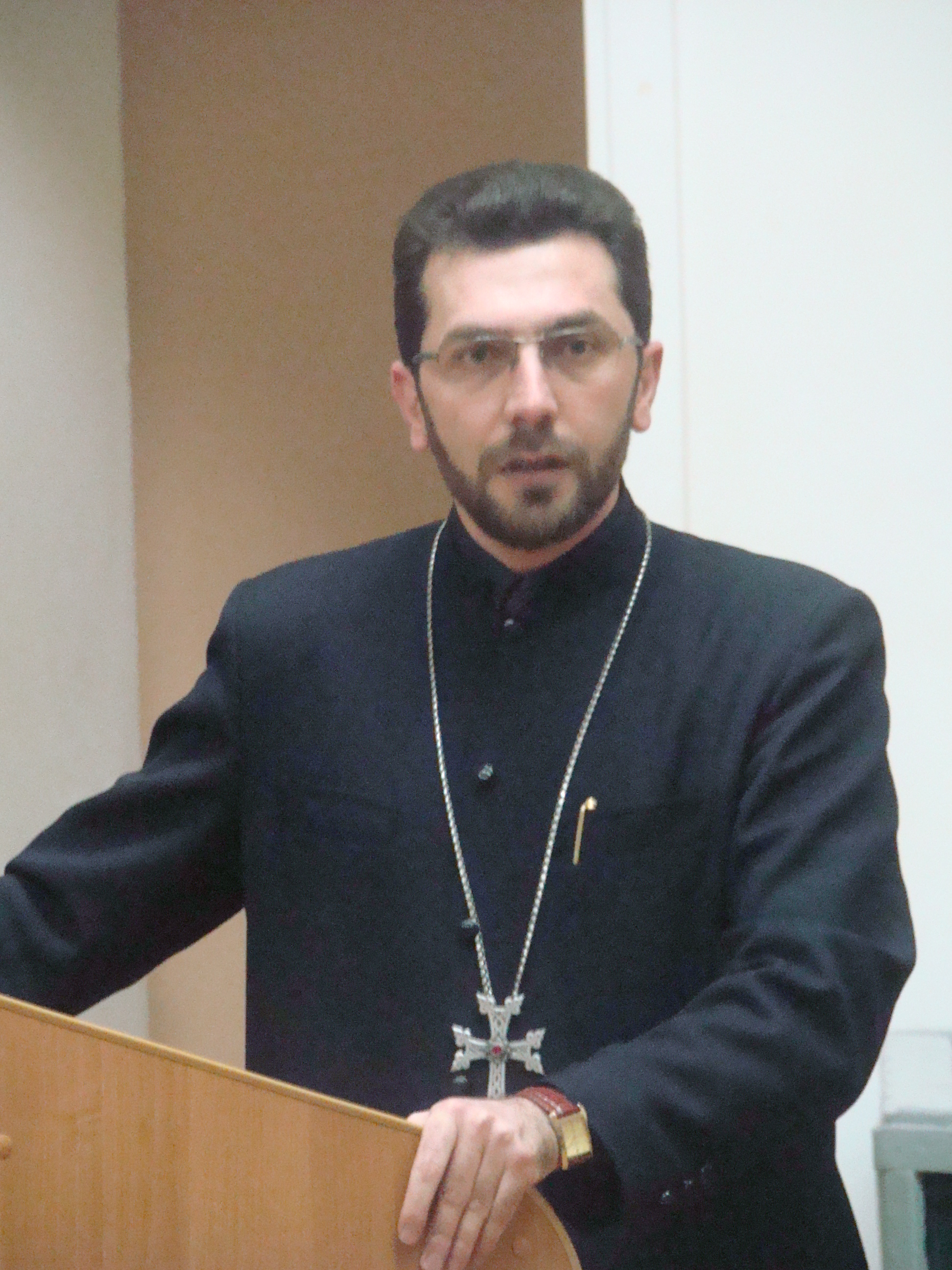 Sourb Gevorg Activity